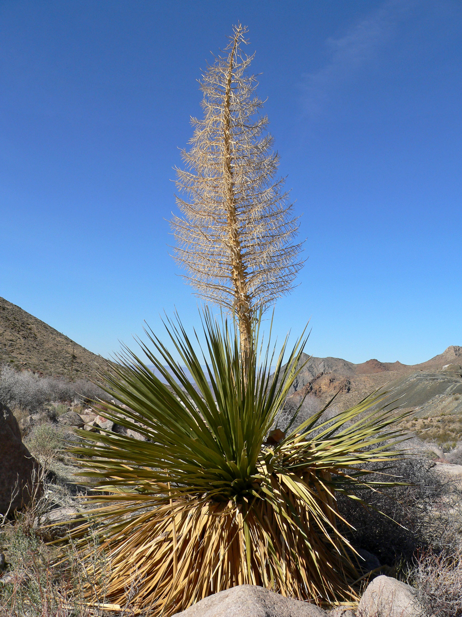 Nolina parryi — Parry's Nolina, Giant Nolina. In the eastern Mojave Desert, off the Excelsior Mine Road near Beck Spring in the Kingston Range, San Bernardino County, southeastern California.